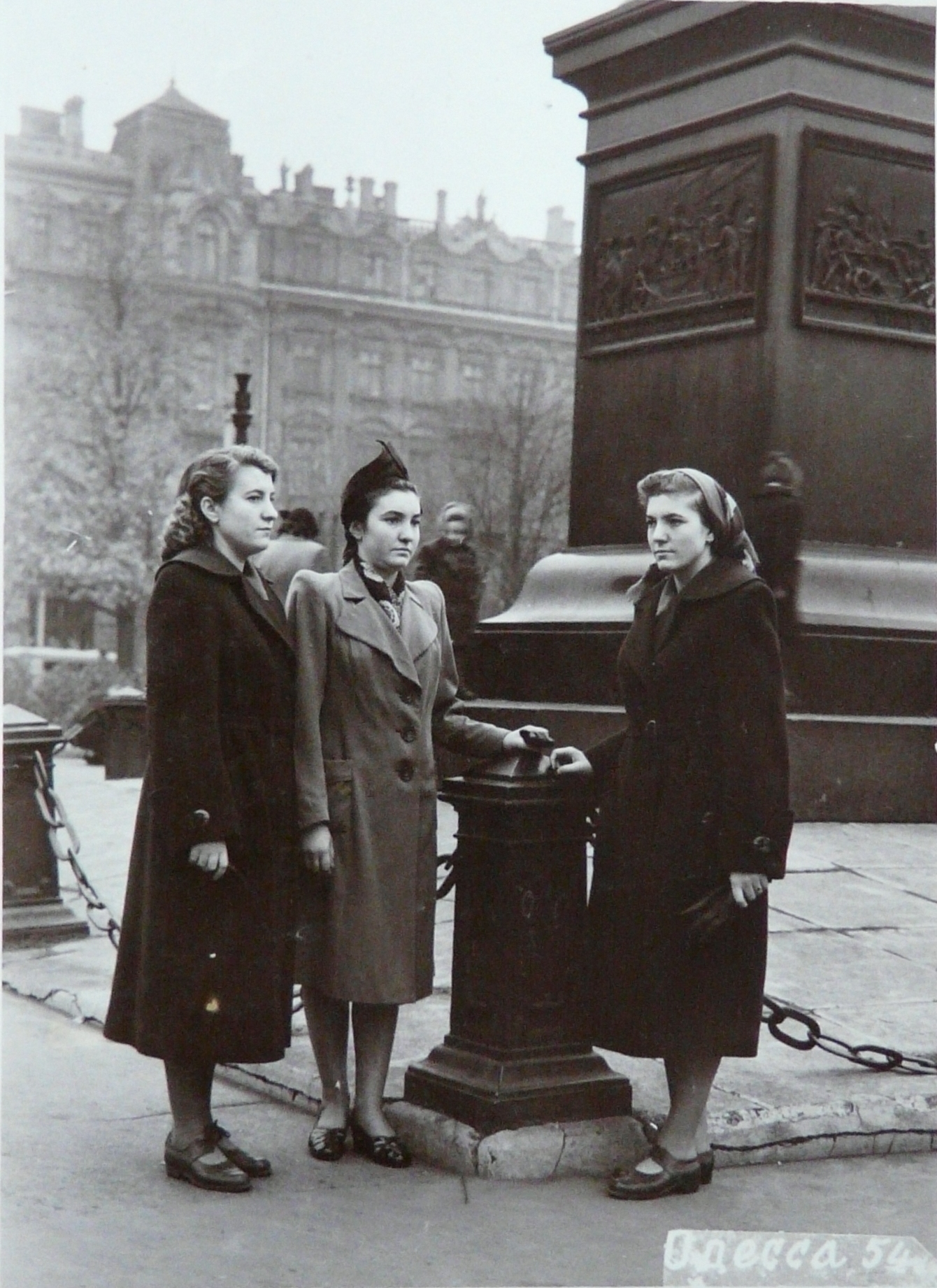 Three sisters of Zhukovsky family at monument in honor of the earl MS Vorontsov in Odessa. The photo dated 1954.